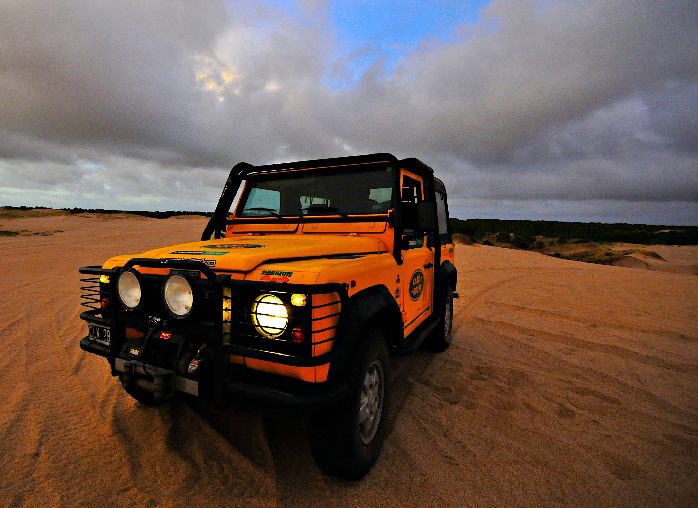 Defender 90 high atop the the Puna region in northwestern Argentina.